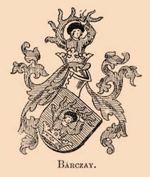 The Coat of Arms of the Barczay Family